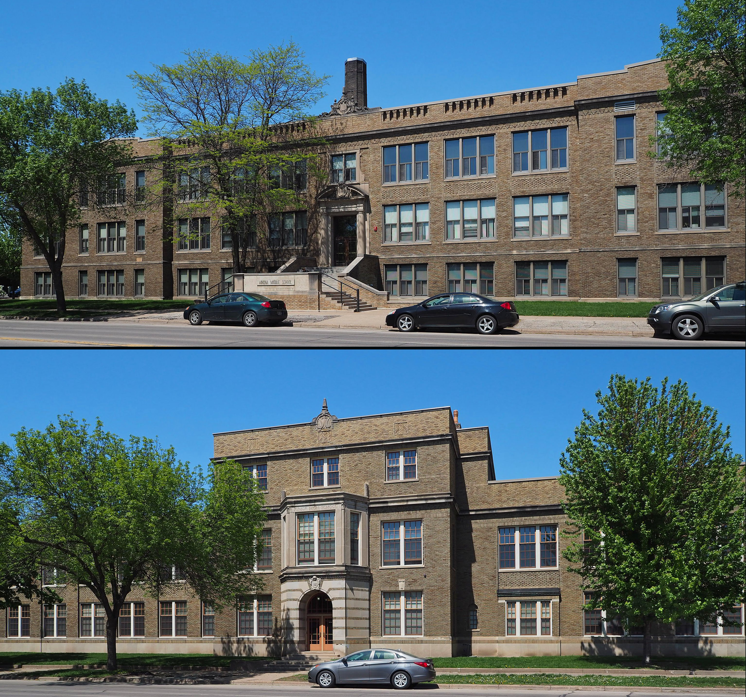 Winona High School (top) and Junior High School (bottom), 166 and 218 W Broadway St, Winona, Minnesota, USA. Viewed from the south.